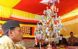 photo